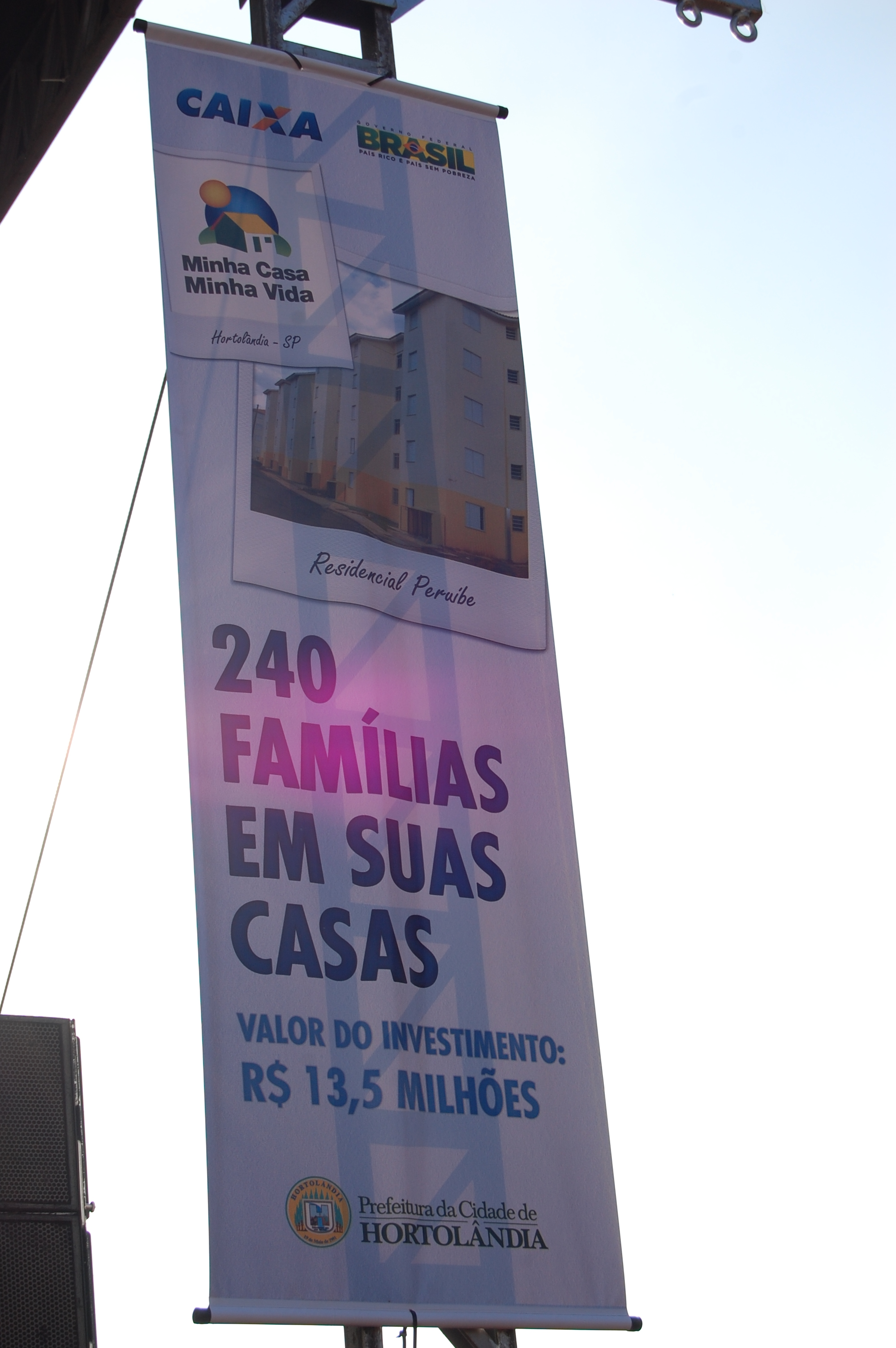 The "Minha Casa Minha Vida" (My House My Life) program in Hortolândia, São Paulo, Brazil.